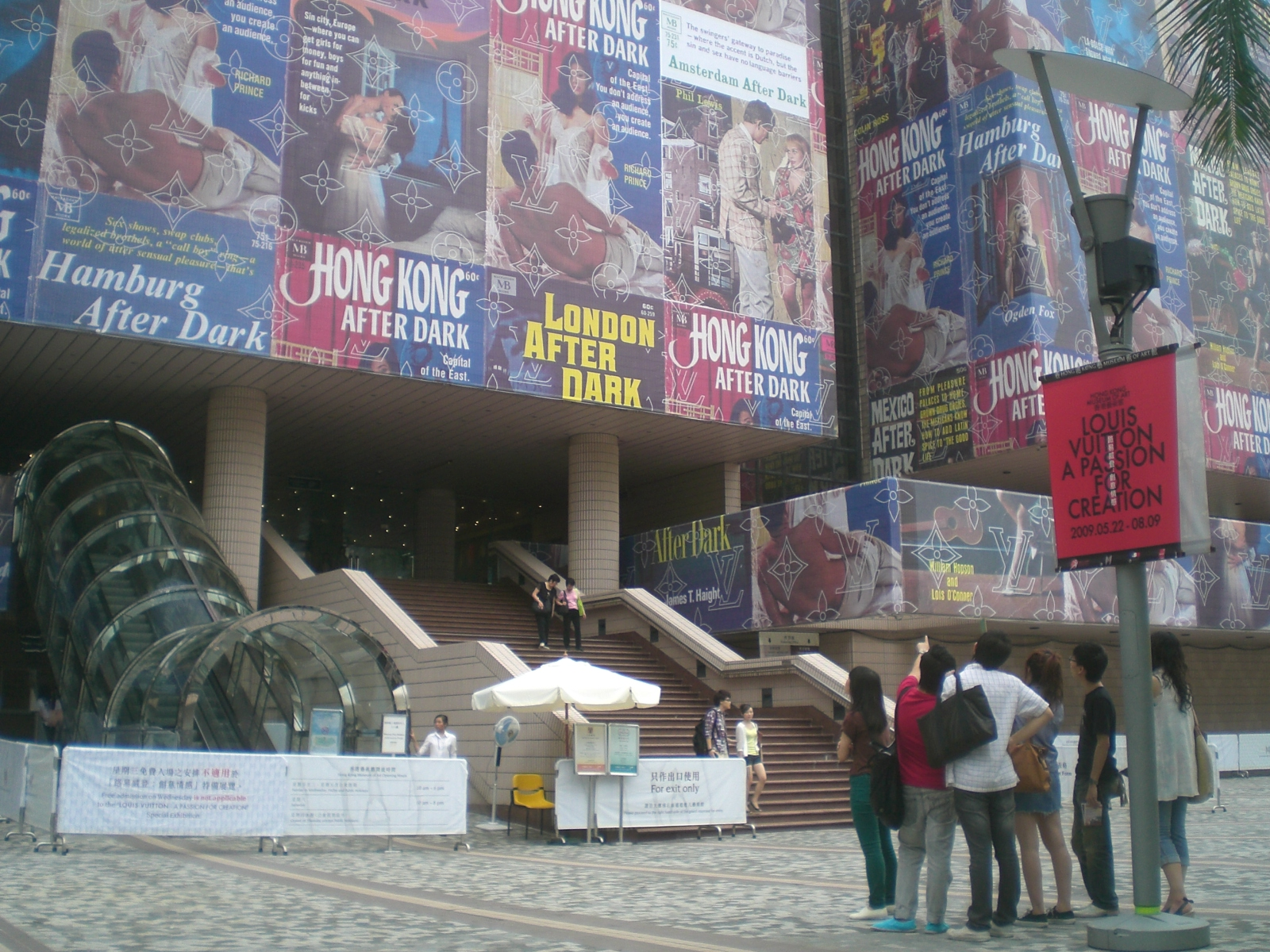 尖沙咀 香港藝術館 當代藝術 路易·威登在香港